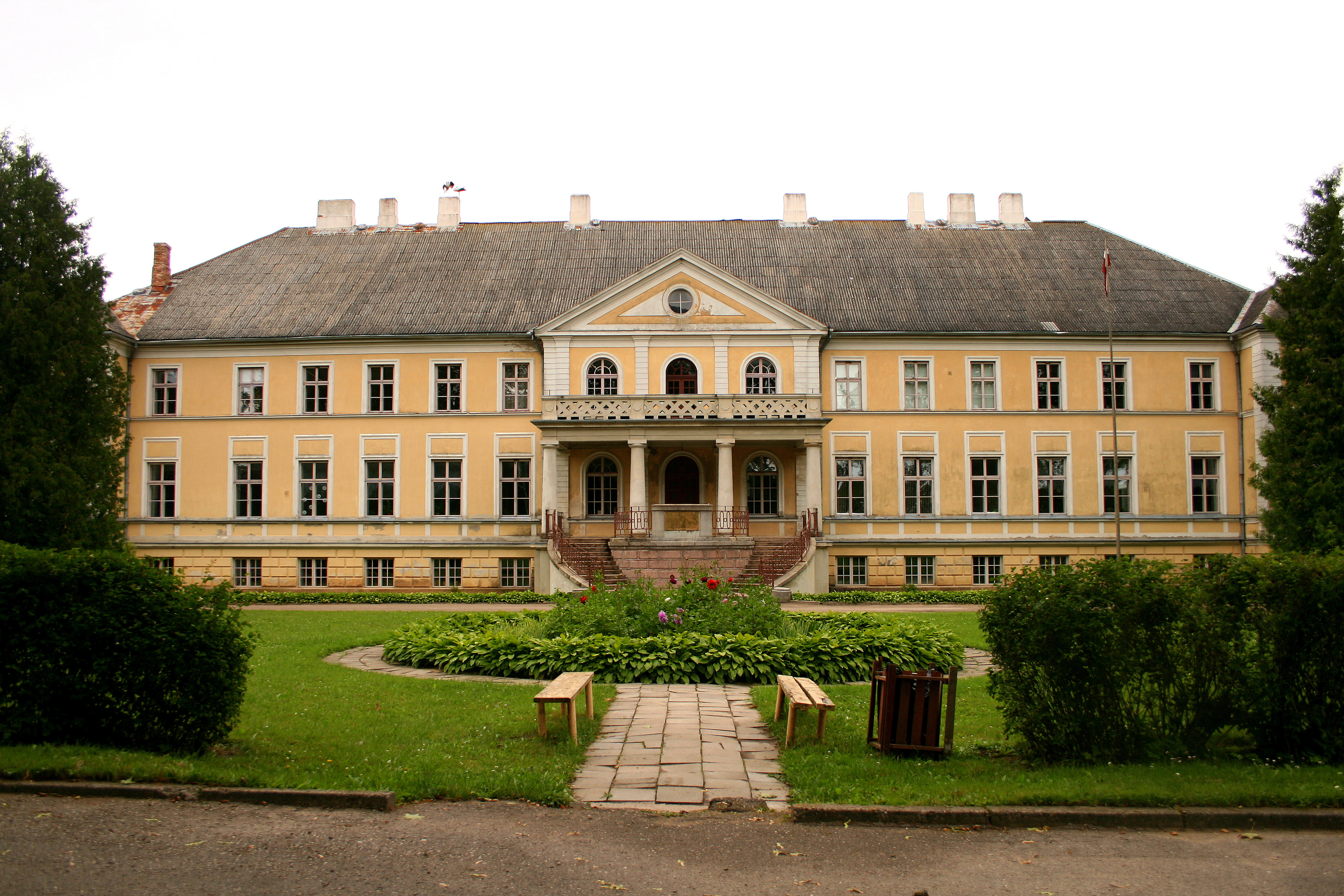 Rudbārži PalaceLatviešu: Rudbāržu muižas pils